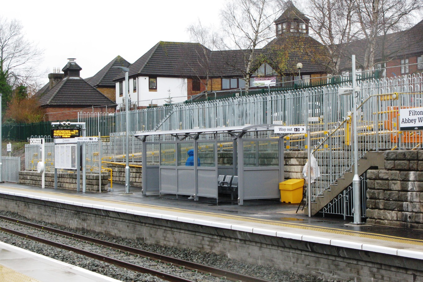 The waiting shelter on the new platform 4 of Filton Abbey Wood station which was opened in November 2018. Trains on this platform go to Cardiff.